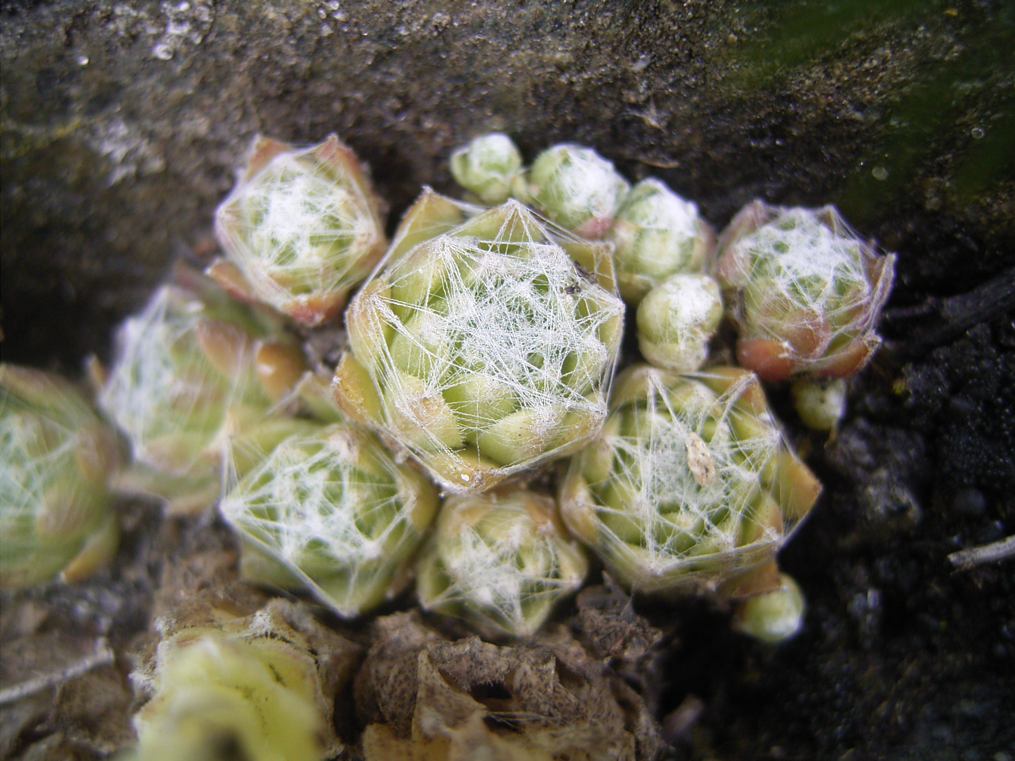 This photo shows Sempervivum arachnoideum